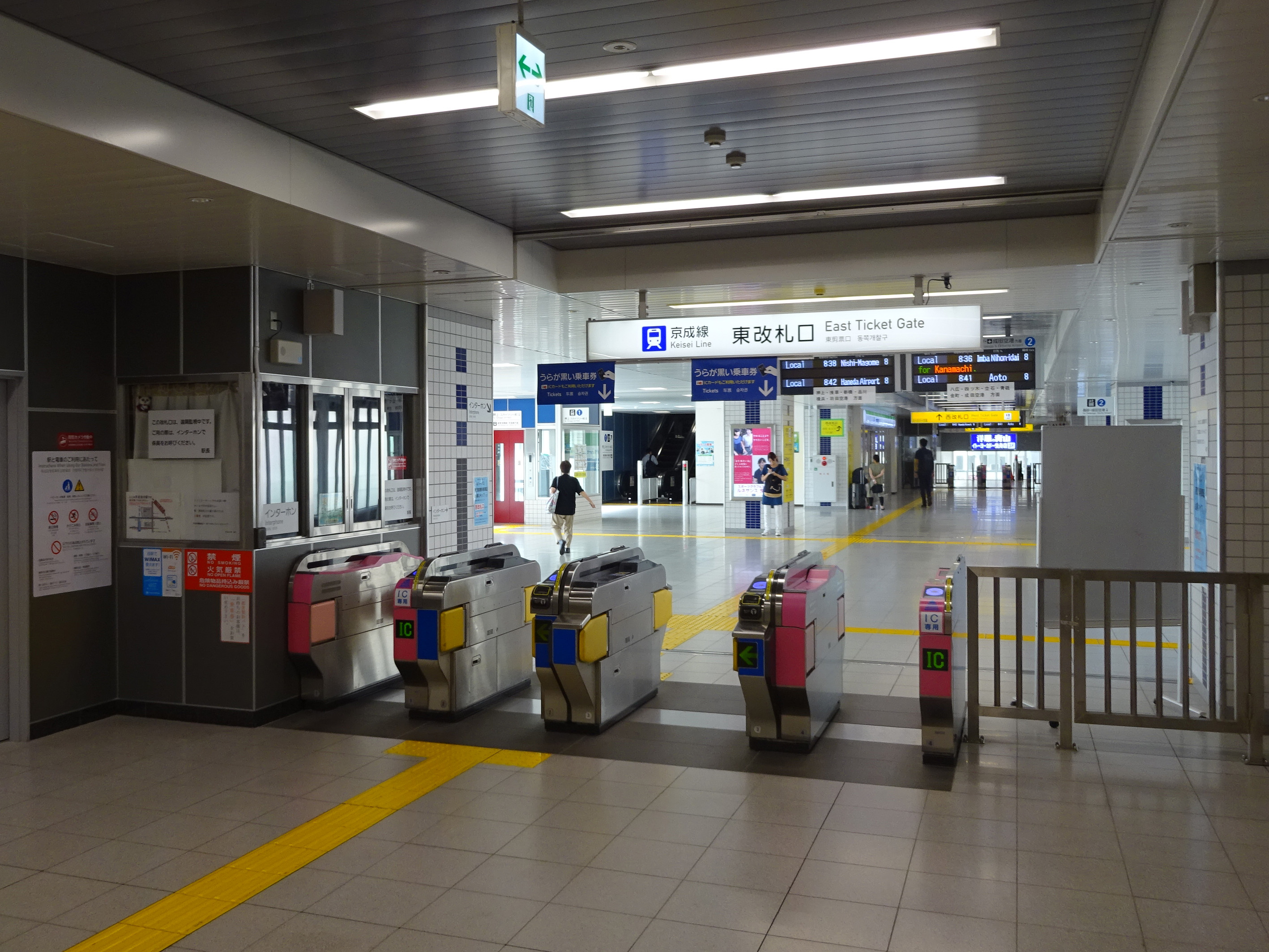 Ticket barriers of Keisei Hikifune Station (East entrance)